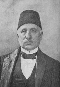 Aristides Pasha Yorgancıoğlu, Ottoman statesman. (Scanned image)